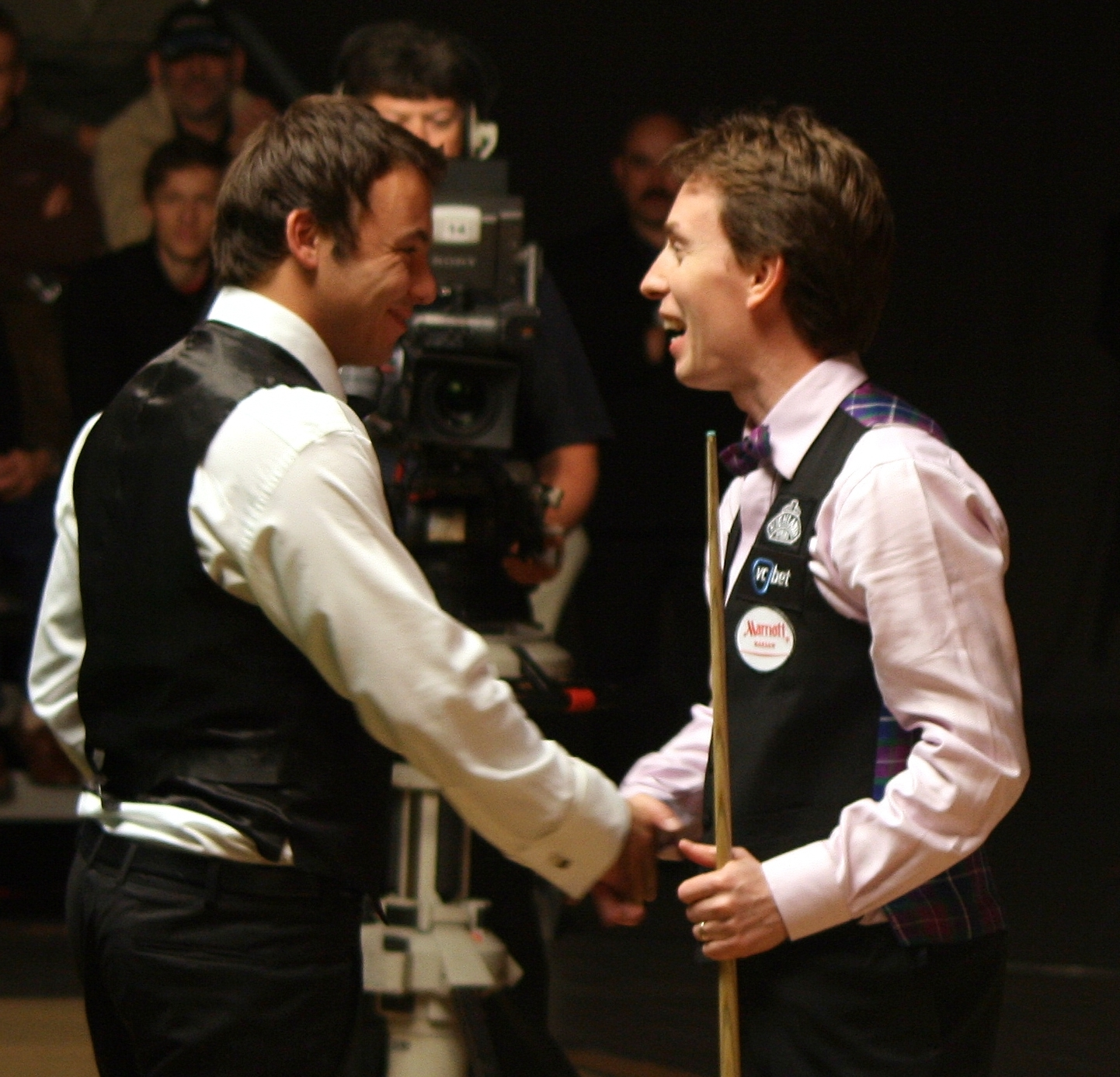 World Series of Snooker - Rafal Gorecki (left) and Ken Doherty